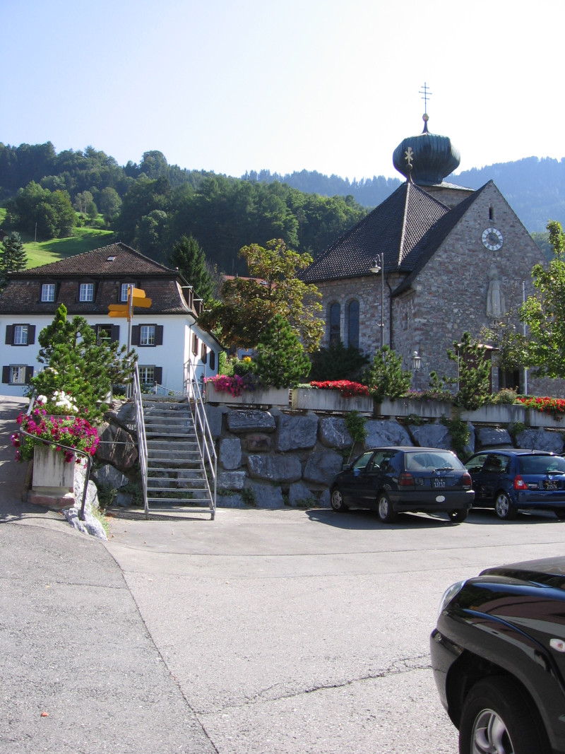 Fürstentum Liechtenstein, town Triesenberg